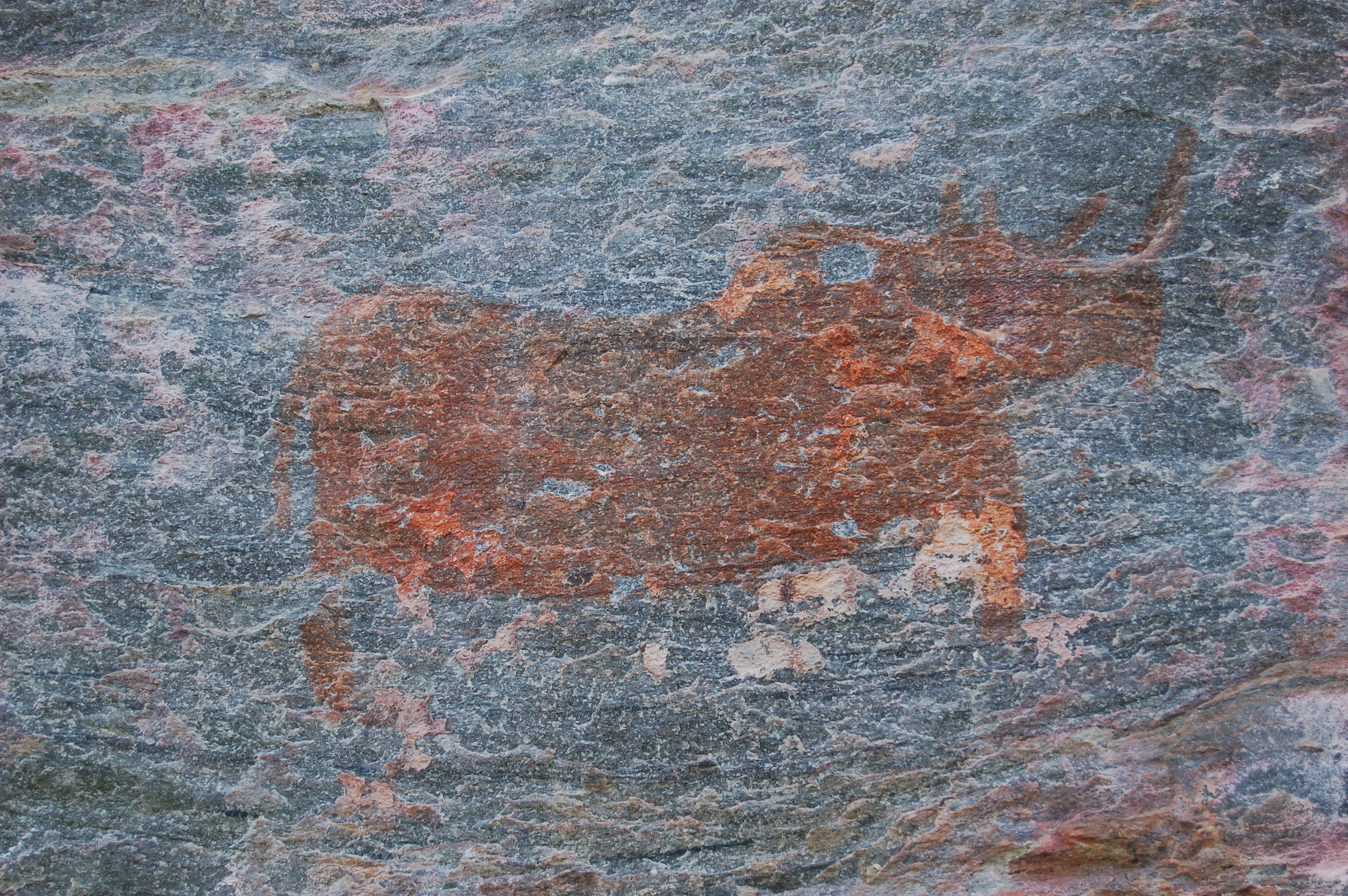 Rock paintings in Tsodilo Hills, Botswana